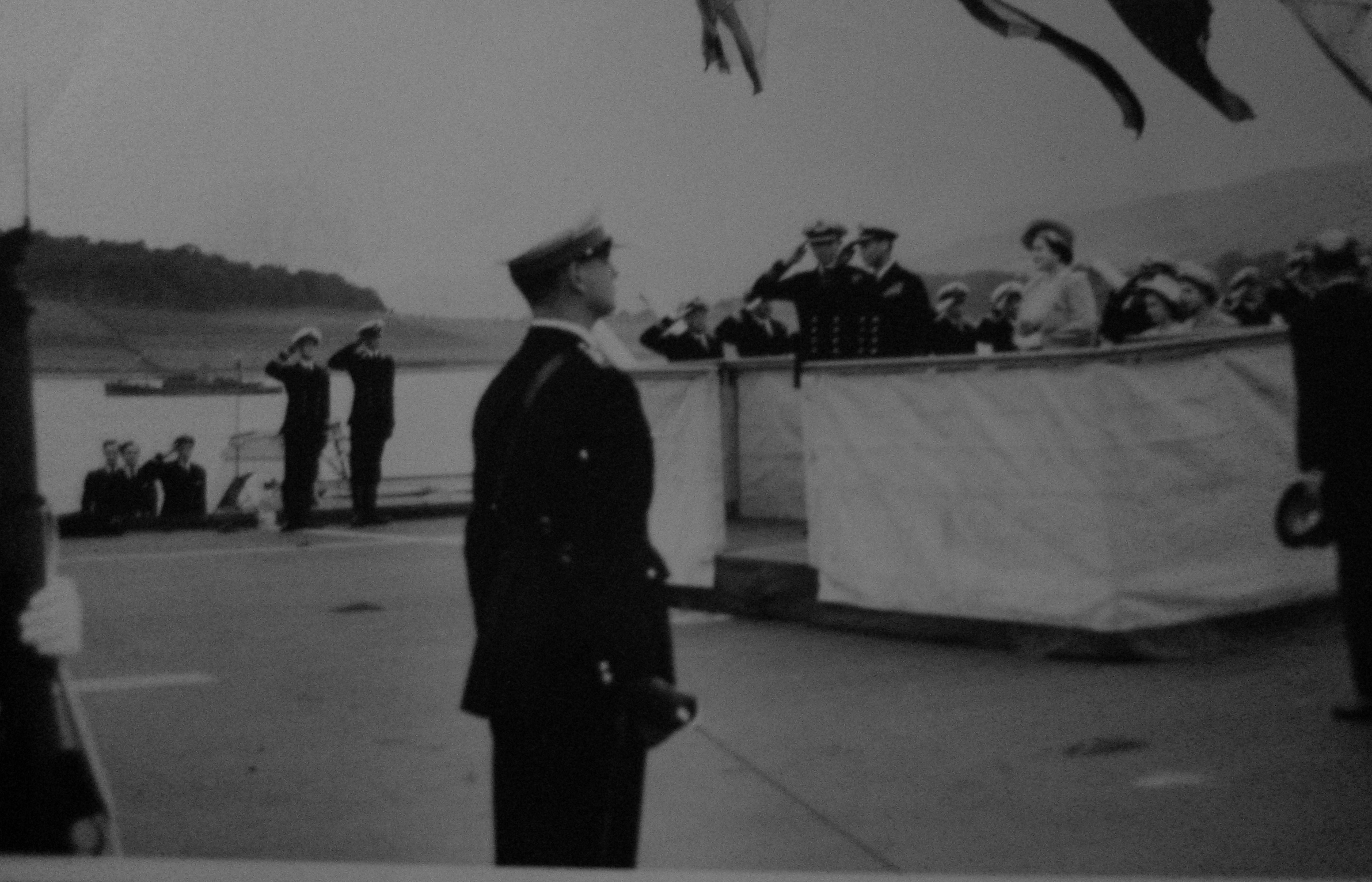 Visit from the King and current Queen ,Queen Elizabeth II can be seen on the far right side of the podeum.